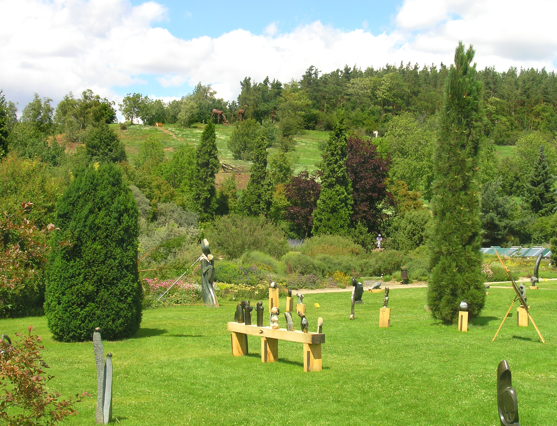 Prague Botanic Garden at Troja, Prague, with exposition Statues of Zimbabwe